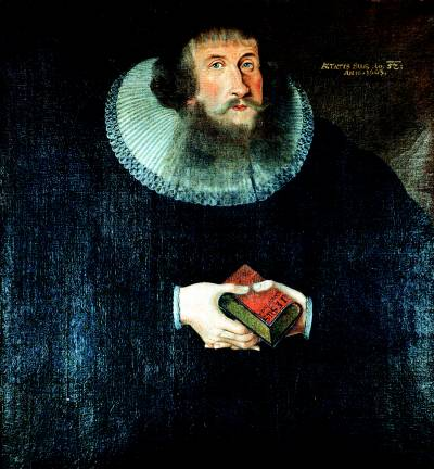 A contemporary painting of 17th Century priest in Norway Christen Bentsen Schaaning.